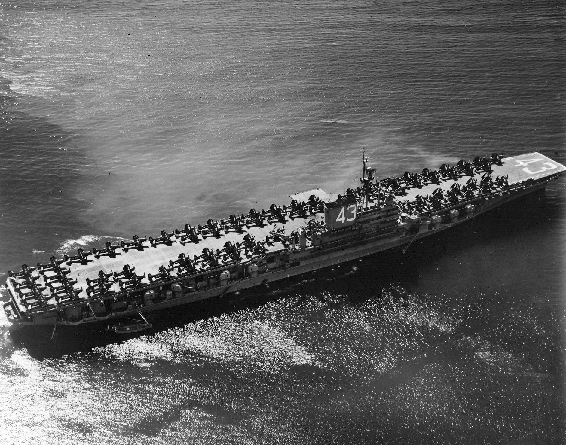 The U.S. Navy aircraft carrier USS Coral Sea (CVB-43) during her shakedown cruise in 1948. As shown in this photo Coral Sea was completed with 14 - rather than 18 - 5"(12.7 cm)/54 guns as compared to her sister ships Midway and Franklin D. Roosevelt. The various Douglas AD Skykraider and Vought F4U Corsair aircraft were probably of Carrier Air Group 5 (CVBG-5).